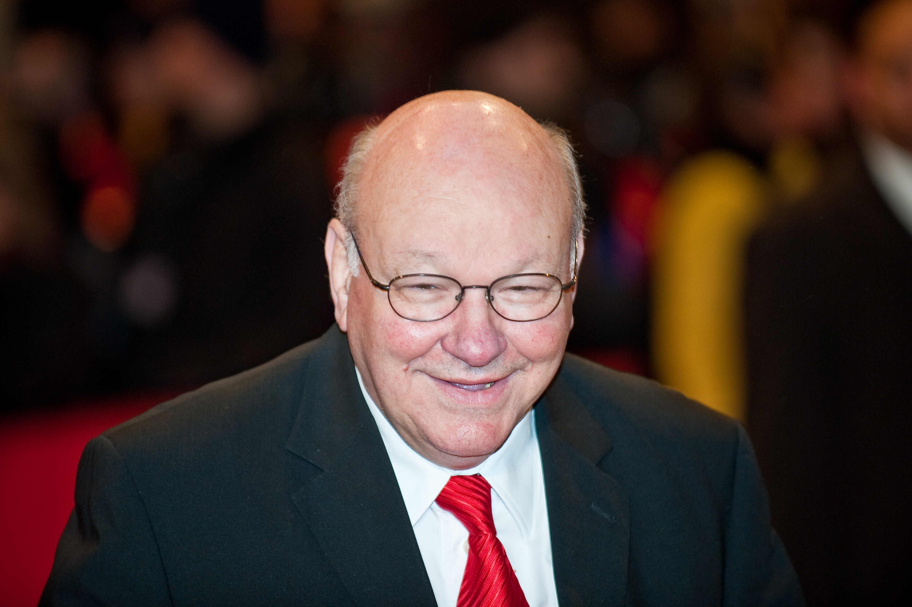 Politician Walter Momper, former Mayor of West Berlin 1989–1990 and Berlin 1990-1991, arriving at the opening of the 60th Berlin International Film Festival